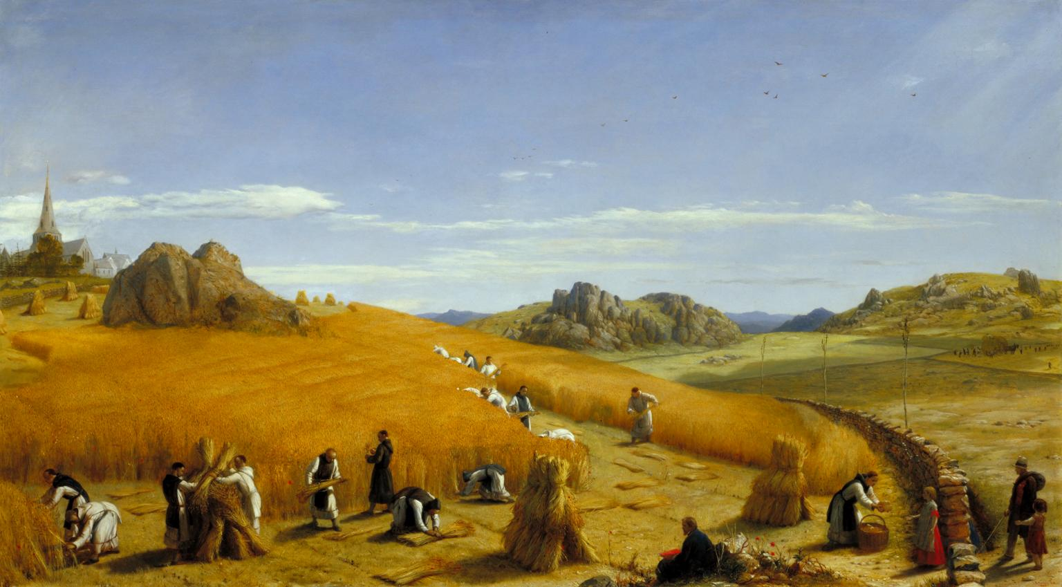 Laborare est Orare a painting by John Rogers Herbert. Commentaries: Tate, Terry Prest. Both the above commentaries claim that the building shown at top left is Mount St Bernard Abbey. However the church of that abbey has no spire - see these images. The Tate Gallery's catalogue entry for this painting explains that Herbert based the appearance of the church on Pugin's original designs, i.e as it was intended for the completed church to look. Herbert and Pugin were close personal friends The abbey's guest book for 1861 records the visit of J.R Herbert - "artist from London" - in July of that year. The painting was completed in 1862.